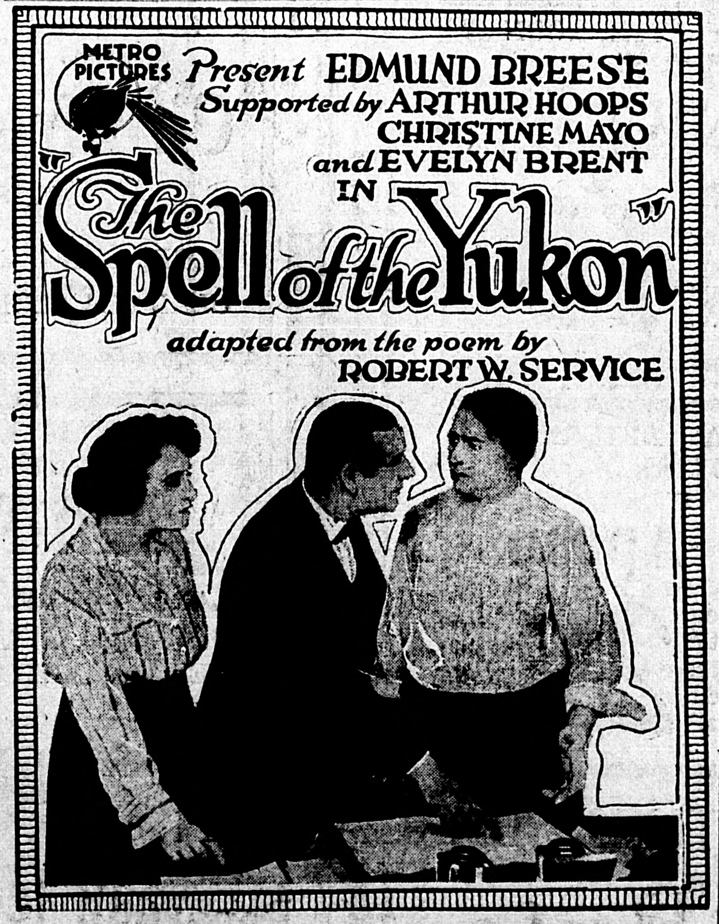 The Spell of the Yukon is a 1916 American silent American drama film directed by Burton L. King. This is a newspaper advert for the film.